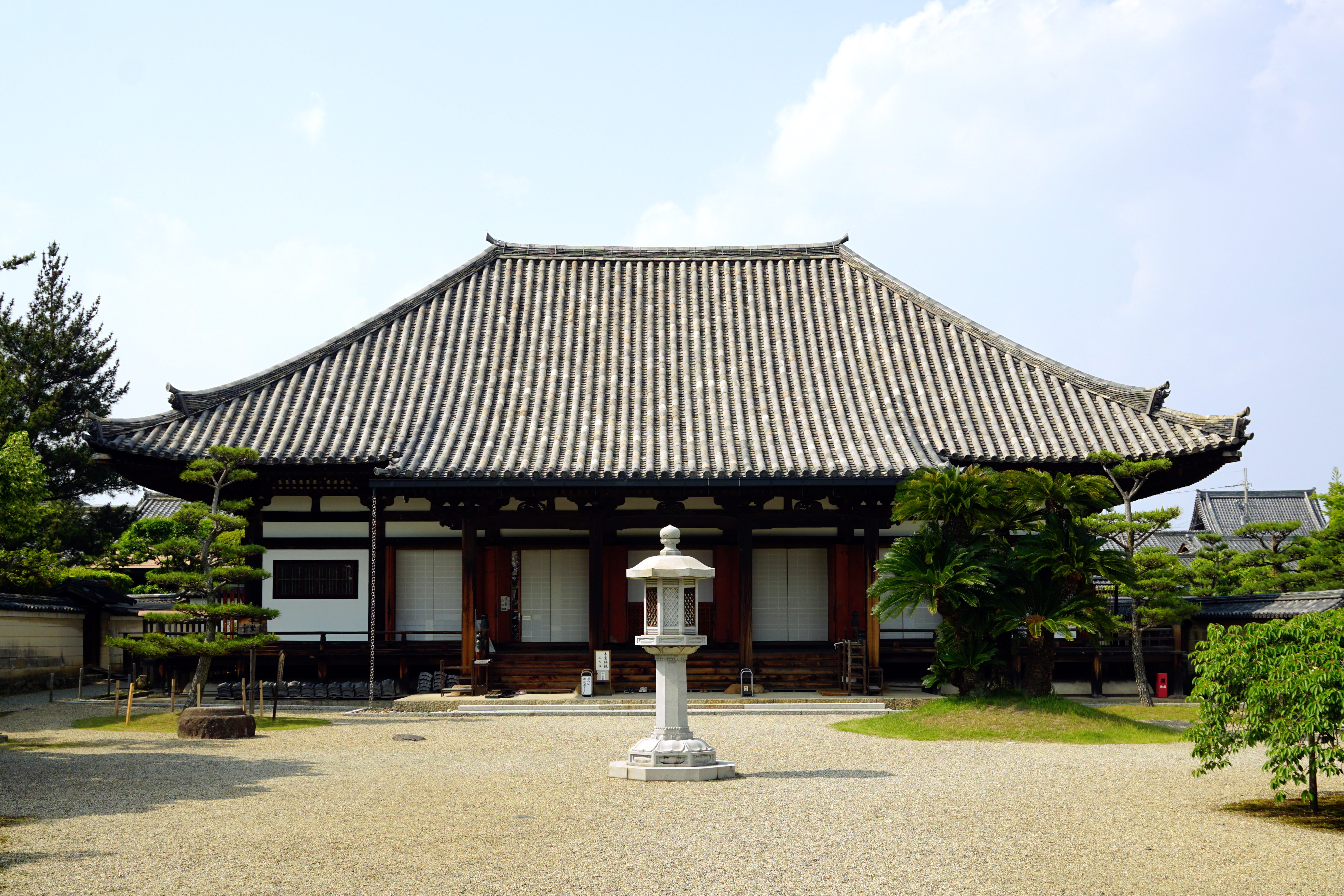 Hokke-ji in Nara, Nara prefecture, Japan.